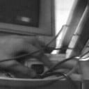 The final image from the Trojan Room coffee pot frame capture device, showing the fingers of Daniel Gordon, Martyn Johnson and Quentin Stafford-Fraser pressing the power-off switch on the Acorn Archimedes.